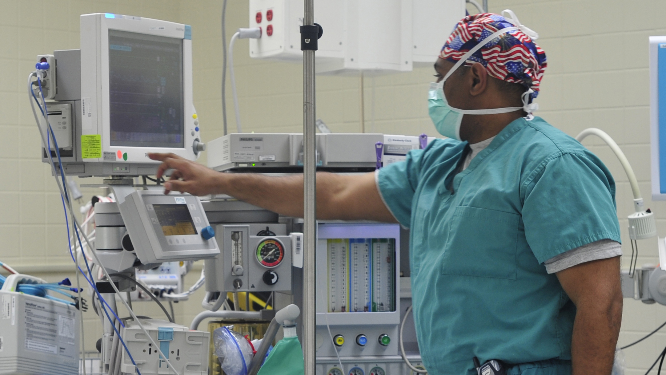 Maj. James Goode, 779th Medical Group chief nurse anesthetist, preps for a simulation anesthesia exercise Feb. 12, 2013, on Joint Base Andrews, Md. Wounded service members from down range as well as active duty, Guard, Reserve, retirees and dependents resigning in the NCR are patients at MGMC. (U.S. Air Force photo/ Airman 1st Class Erin O'Shea)